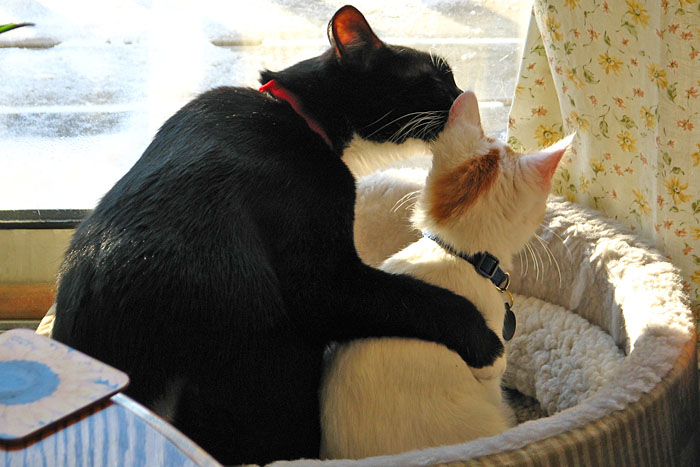 Listen, do you want to know a secretListen, do you want to know a secret?